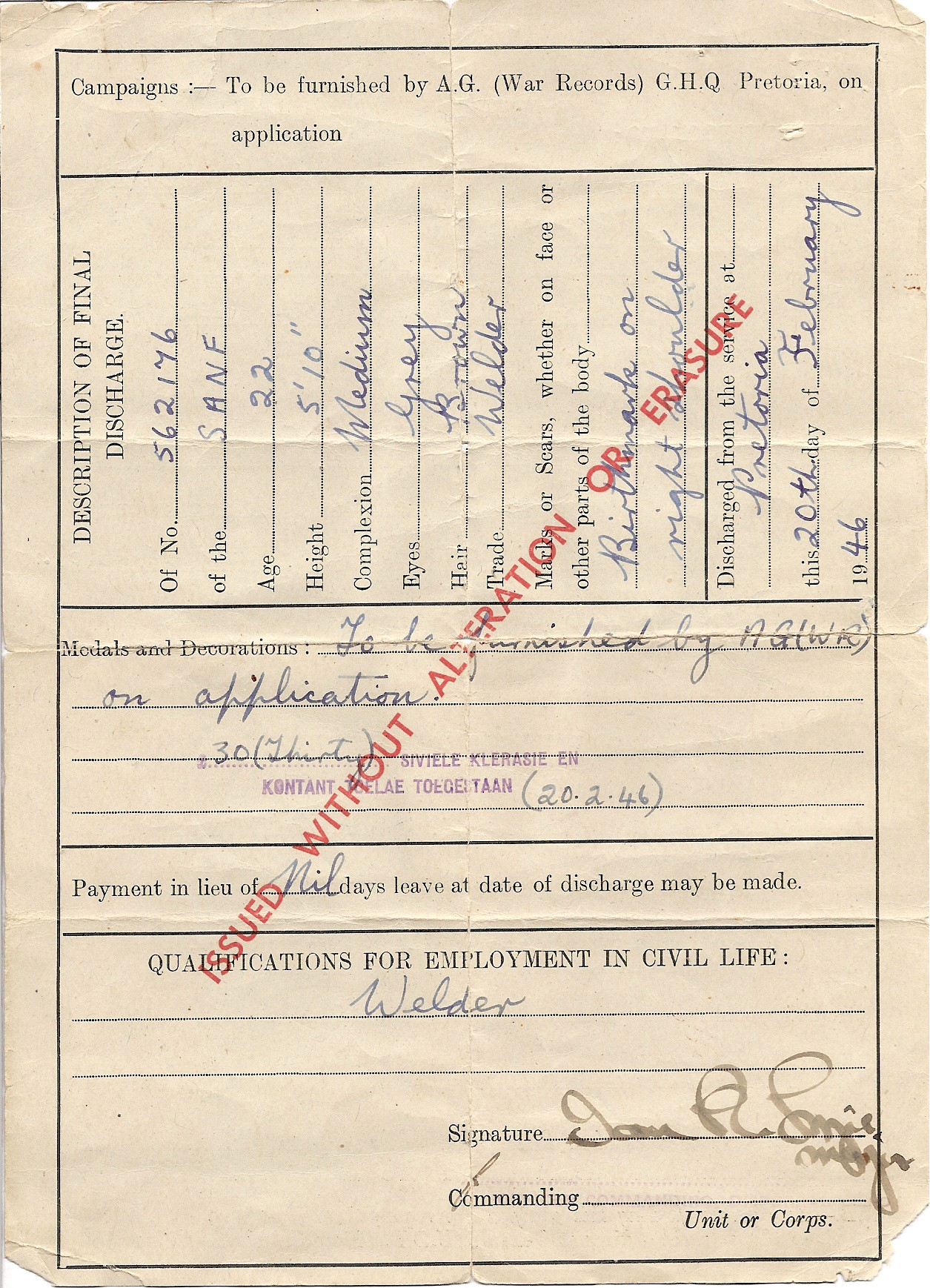 Papers issued to all South African servicemen on demobilisation at the conclusion of World War II.